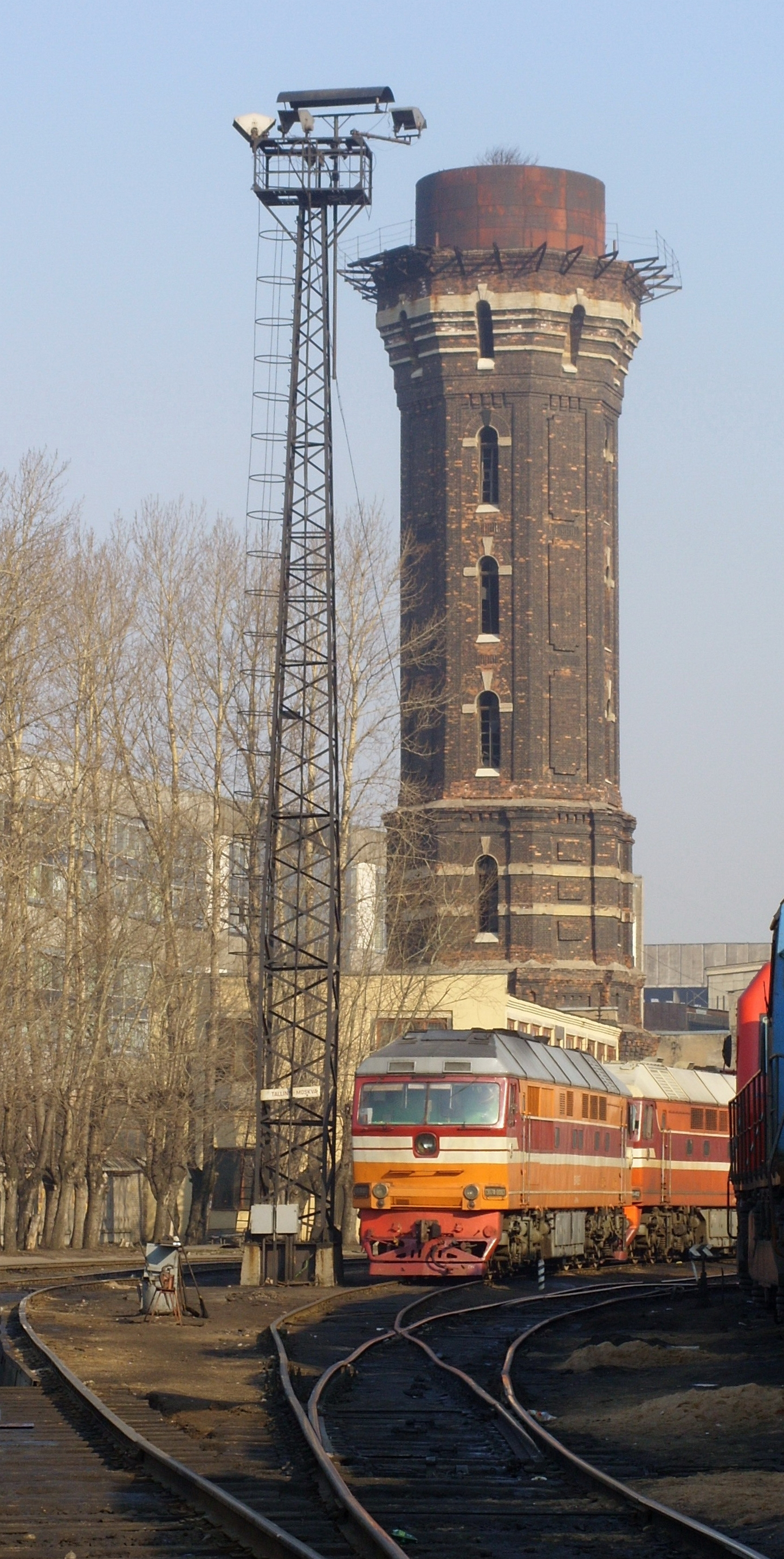 Leningrad-Varshavskiy